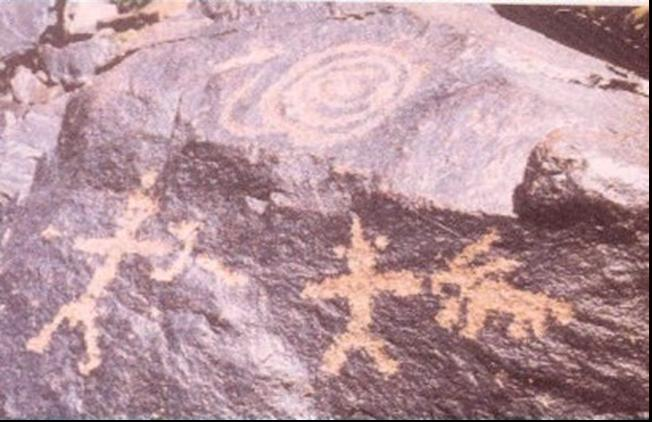 Pictures of Bronze age on rocks in Ordubad, Azerbaijan.